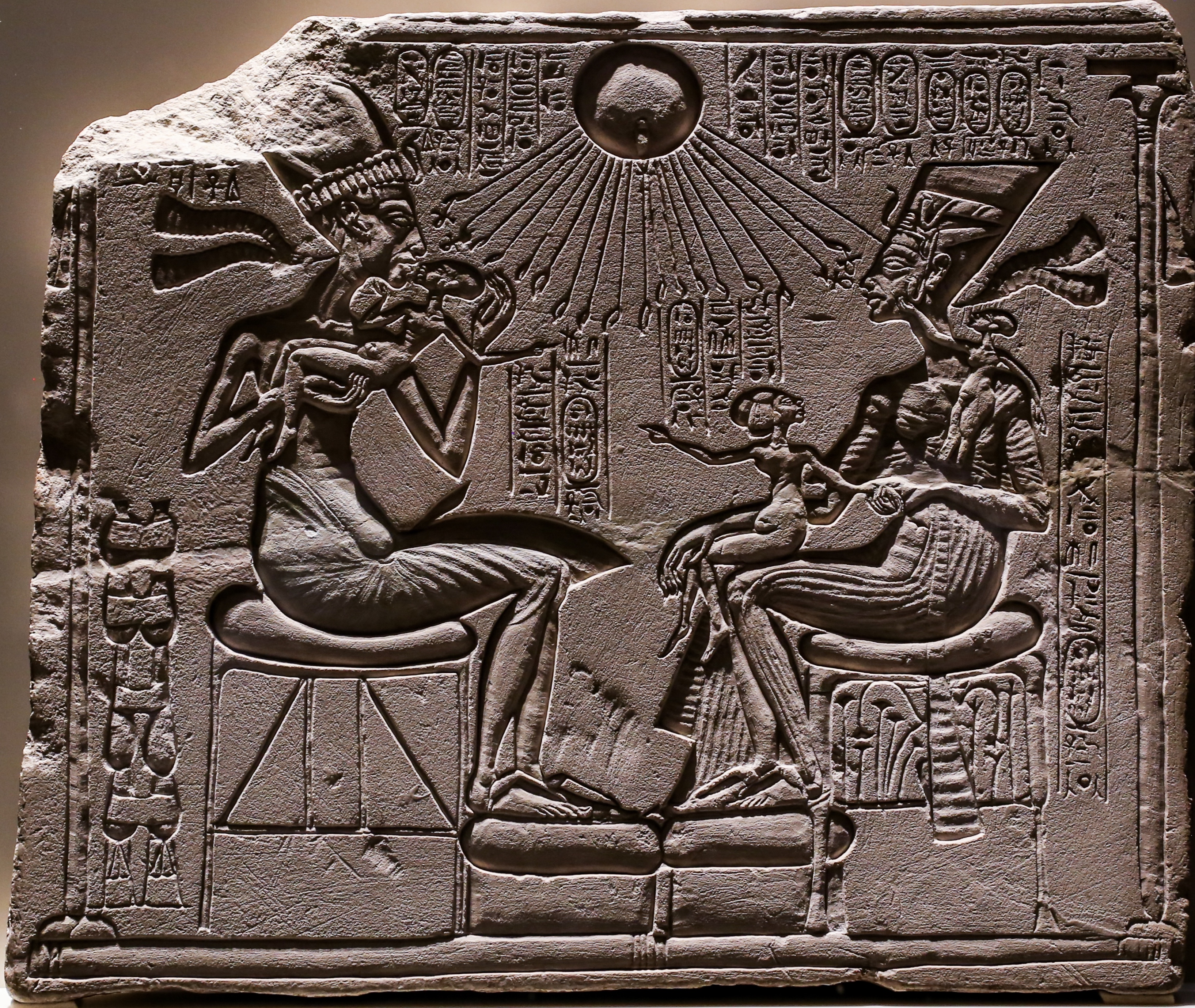 object type: relief from a shrine - description: Akhenaton and Nefertiti seated, holding 3 of their daughters, under the rays of the sun god Aton giving Ankh-symbols to them - production place: Achet-Aton / Amarna - period / date: New Kingdom, later 18. dynasty, Amarna-period, ca. 1350-1340 BC - material: limestone - height: 32 cm - findspot: Achet-Aton / Amarna - museum / inventory number: Berlin, Neues Museum ÄM 14145 - bibliography: D. Wildung, F. Reiter, O. Zorn, Ägyptisches Museum und Papyrussammlung Berlin, 100 Meisterwerke, Berlin 2010, 82, fig. 39 - Please note: The above museum permits photography of its exhibits for private, educational, scientific, non-commercial purposes. If you intend to use the photo for any commercial aime, please contact the museum and ask for permission.